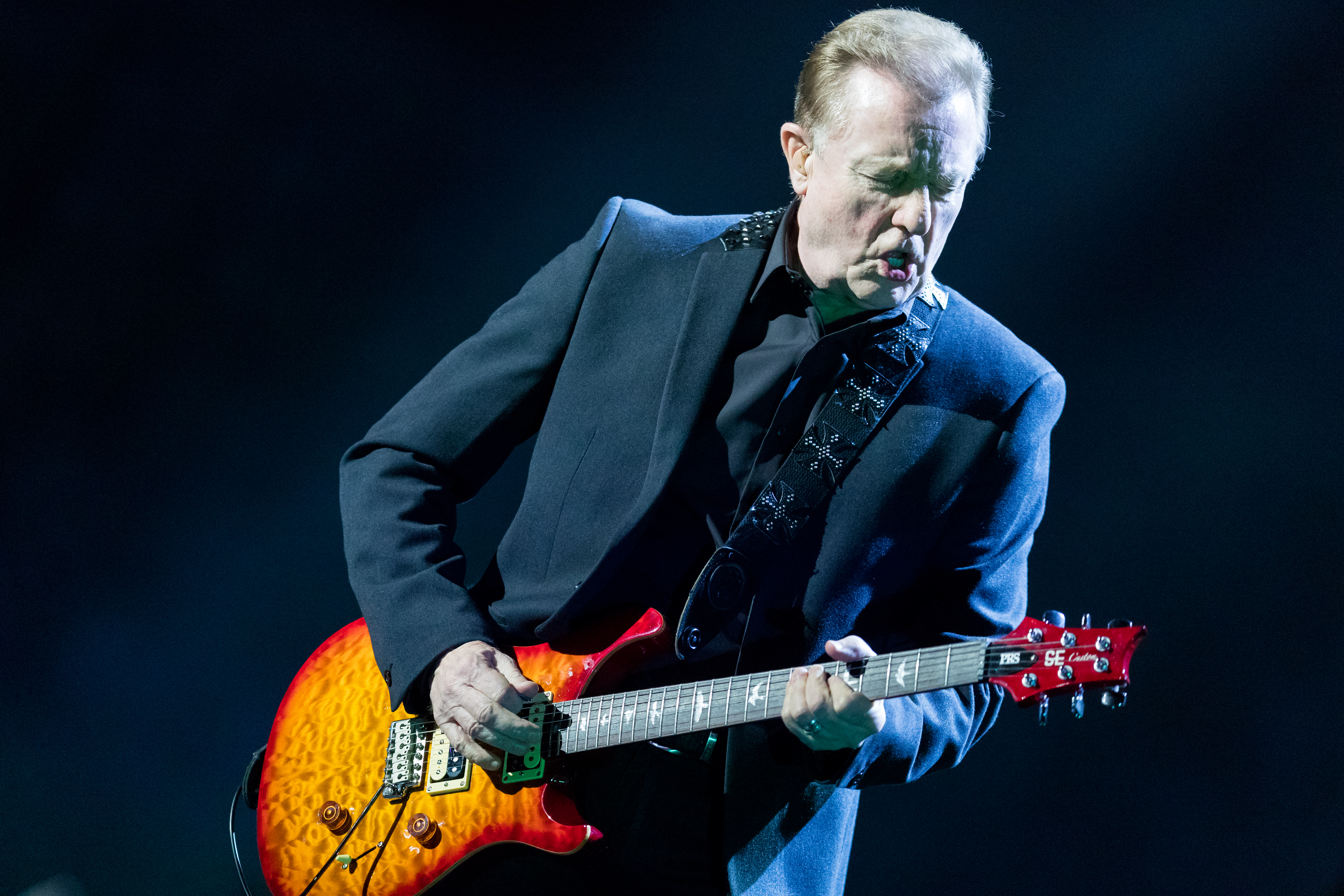 John Miles during Night of the Proms at SAP Arena, Mannheim, Baden-Württemberg, Germany on 2017-12-22, Photo: Sven Mandel